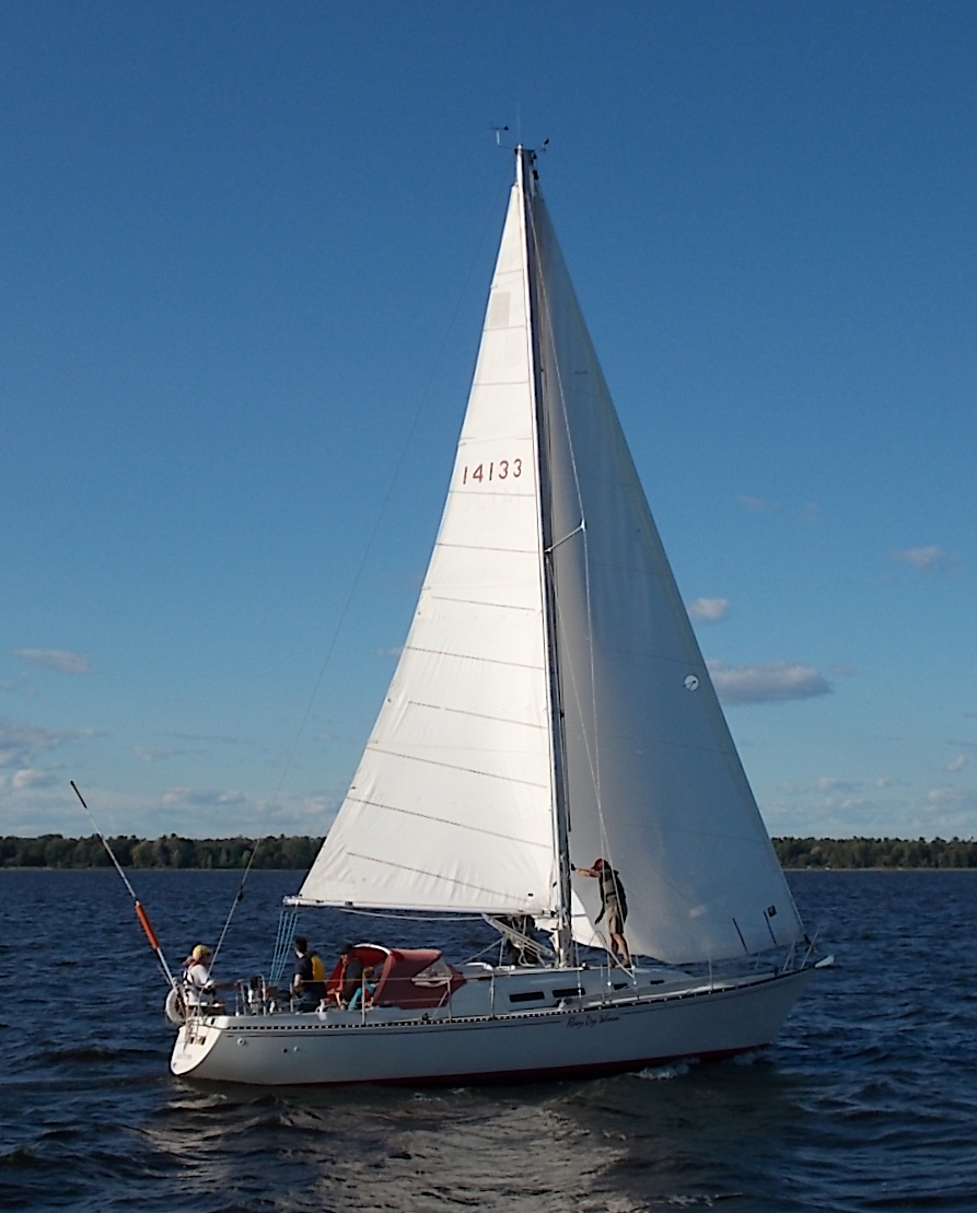 C&C 35 Mk 1 sailboat Rainy Day Woman on Lac Deschênes, part of the Ottawa River, Ottawa, Ontario, Canada